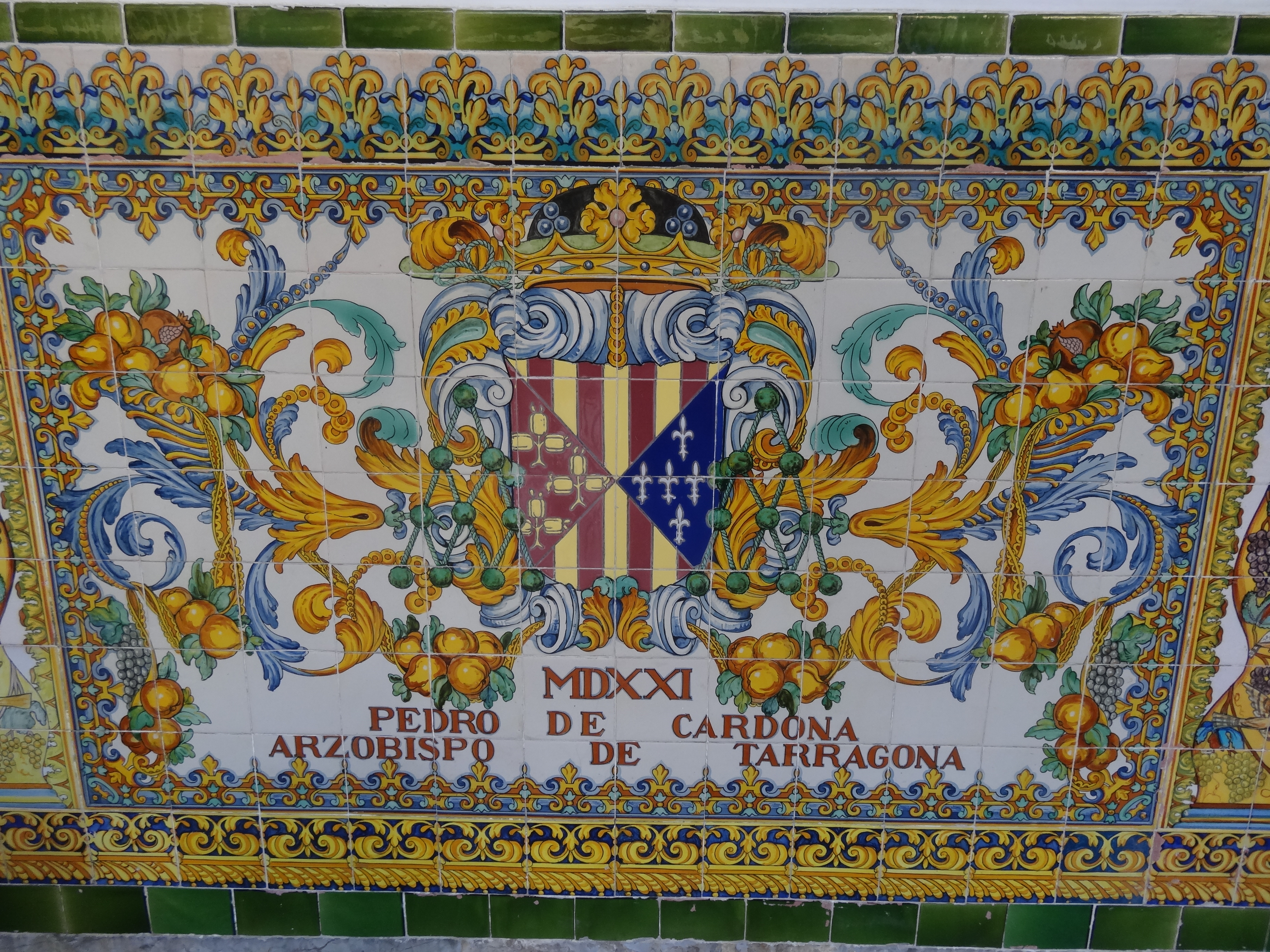 Decorated tiles at the cloister of the former Convent de la Mercè, Capitania General de Barcelona